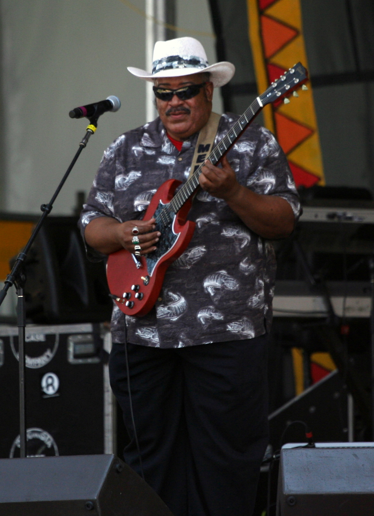 Mem Shannon at Jazz Fest. Congo Square Stage Sunday, May 6